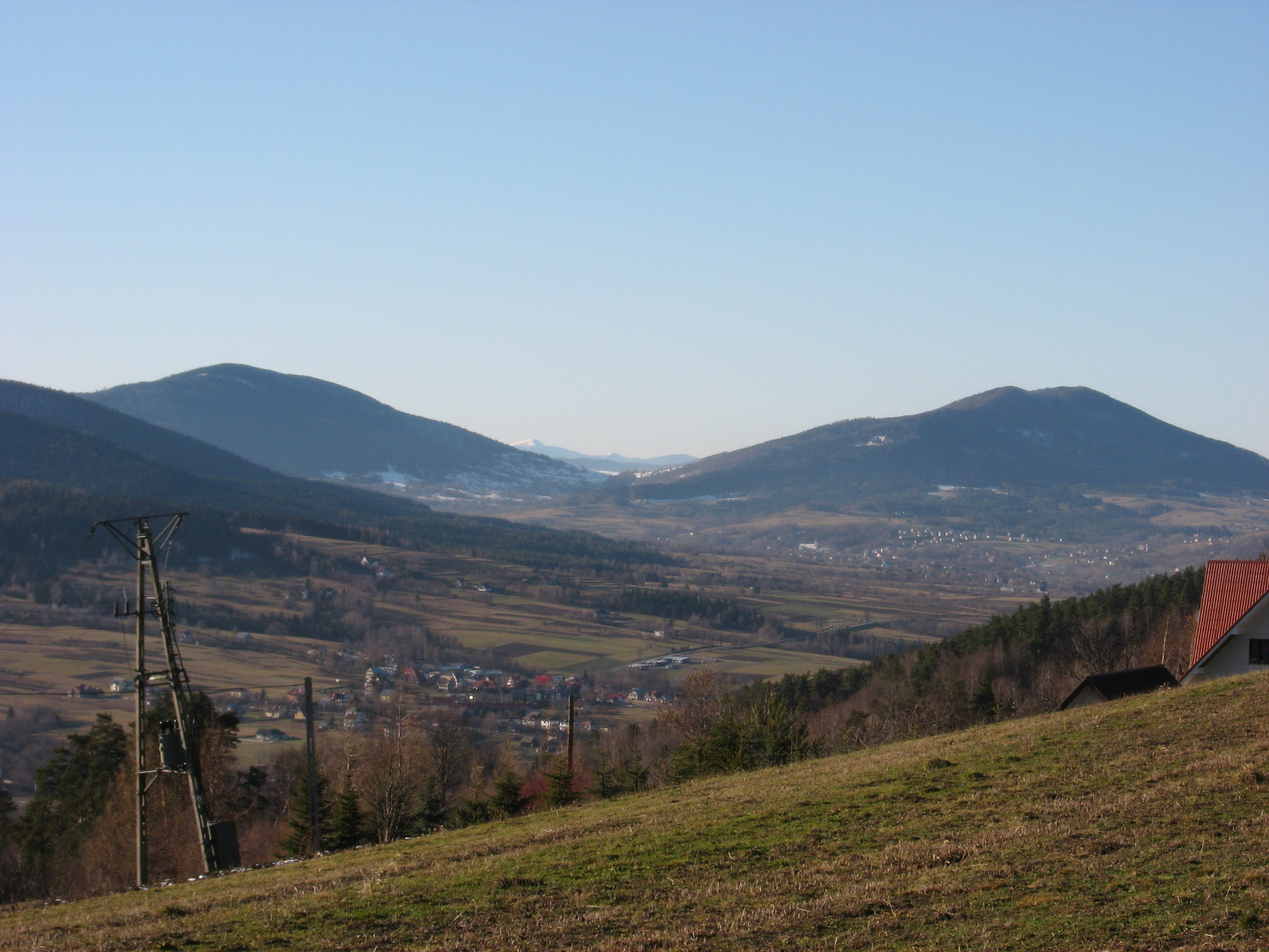 Photo taken from Paproć mountain (645 m) near Limanowa in southern Poland. Two large mountains are: Ćwilin (left) and Śnieżnica. Between them (from the left): Babia Góra, Mała Babia Góra and Pilsko.